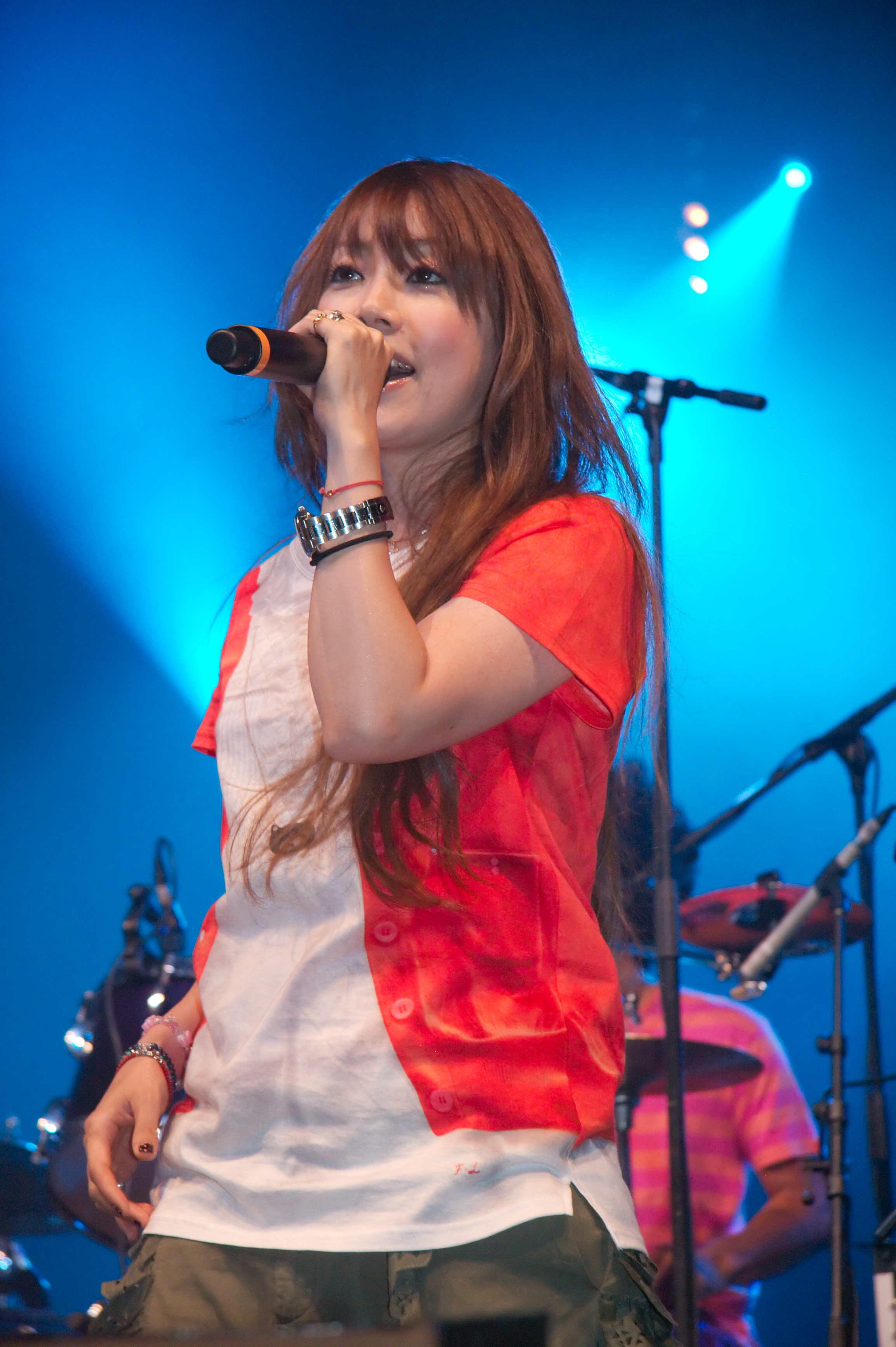 Puffy AmiYumi live at Japan Expo 2009 (Paris, France)